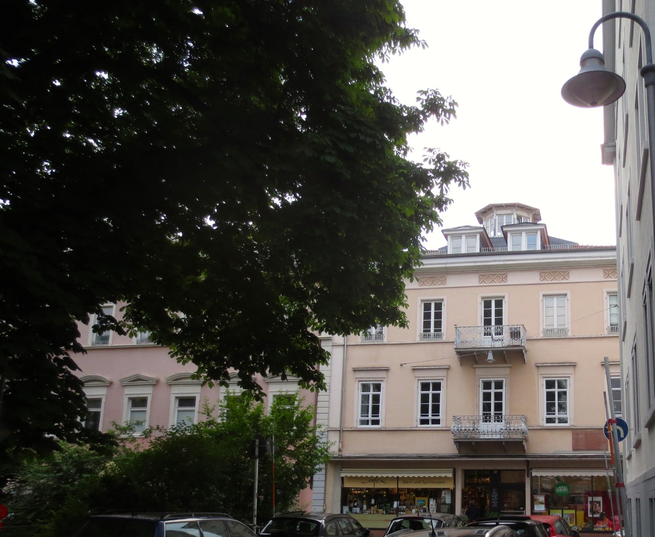 parental home of the astronomer Max Wolf in Heidelberg